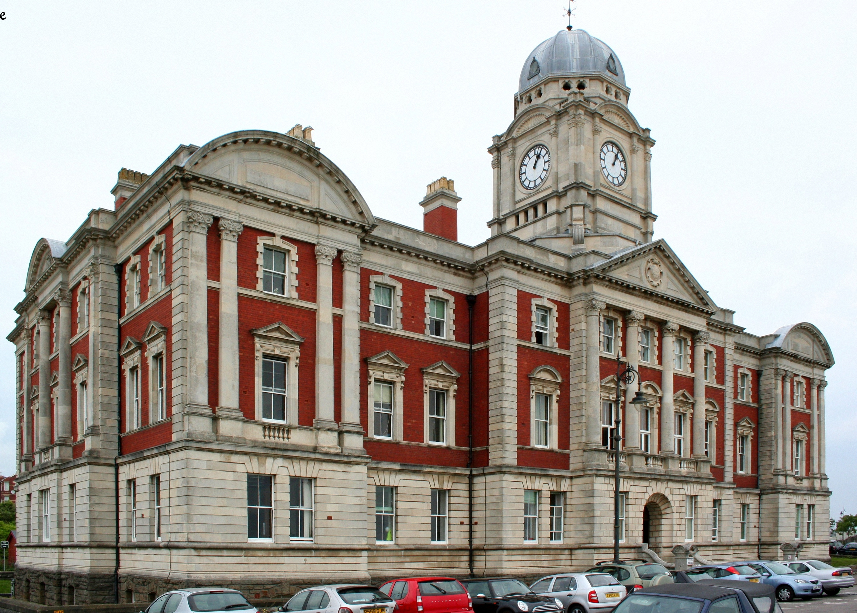 Cane Giapponese - Barry Dock Offices, Barry Docks, Vale of Glamorgan. Taken June 2007